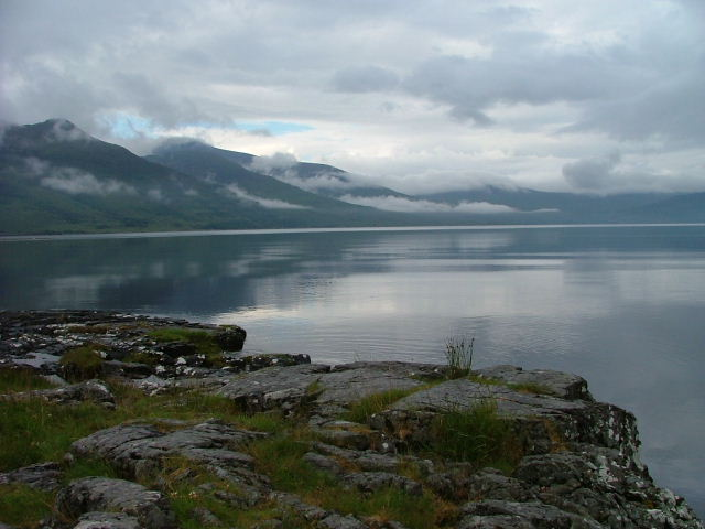 Tide in at Killiechronan At the head of Loch na Keal.